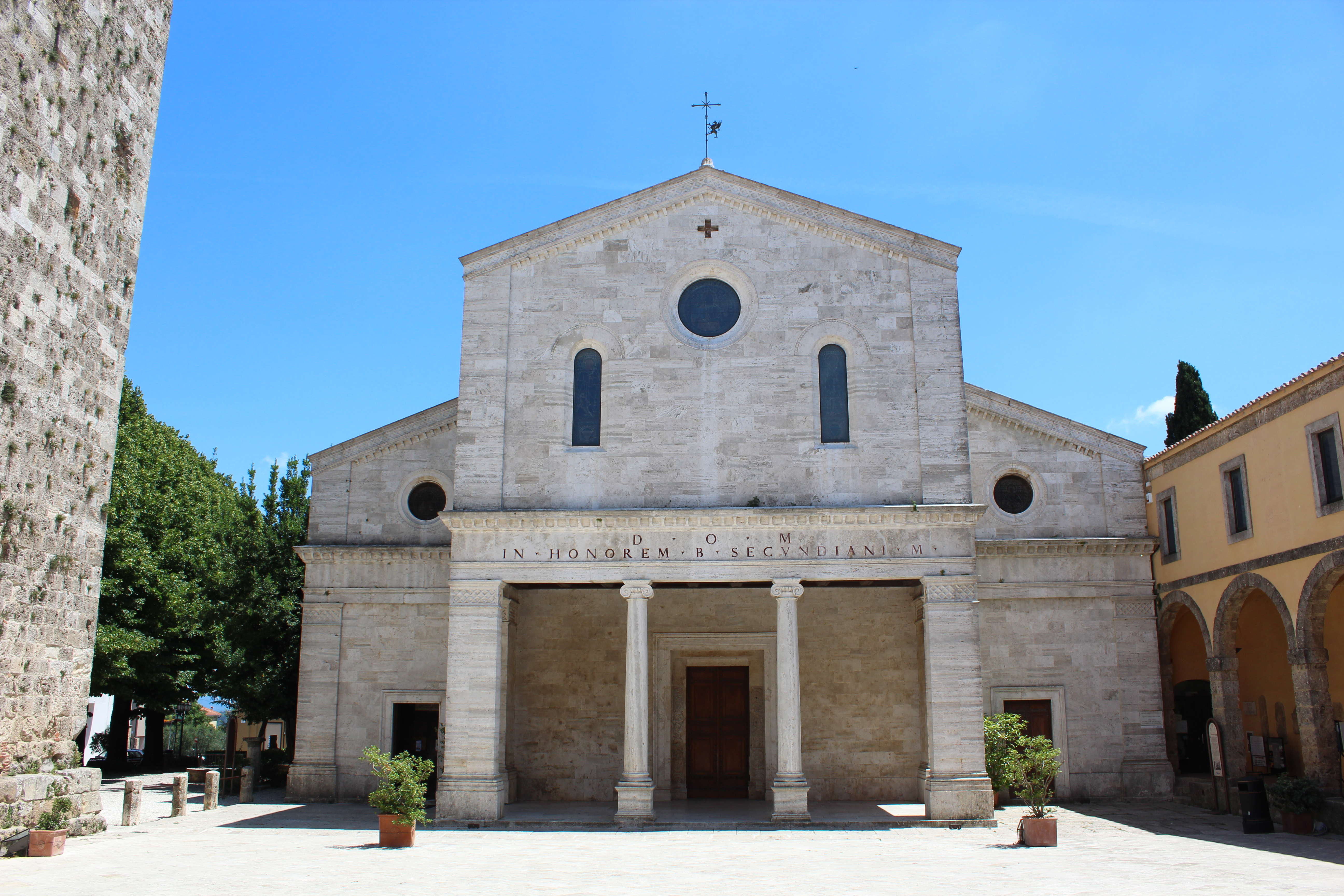 Church Concattedrale di San Secondiano (Duomo) in Chiusi, Valdichiana, Province of Siena, Tuscany, Italy